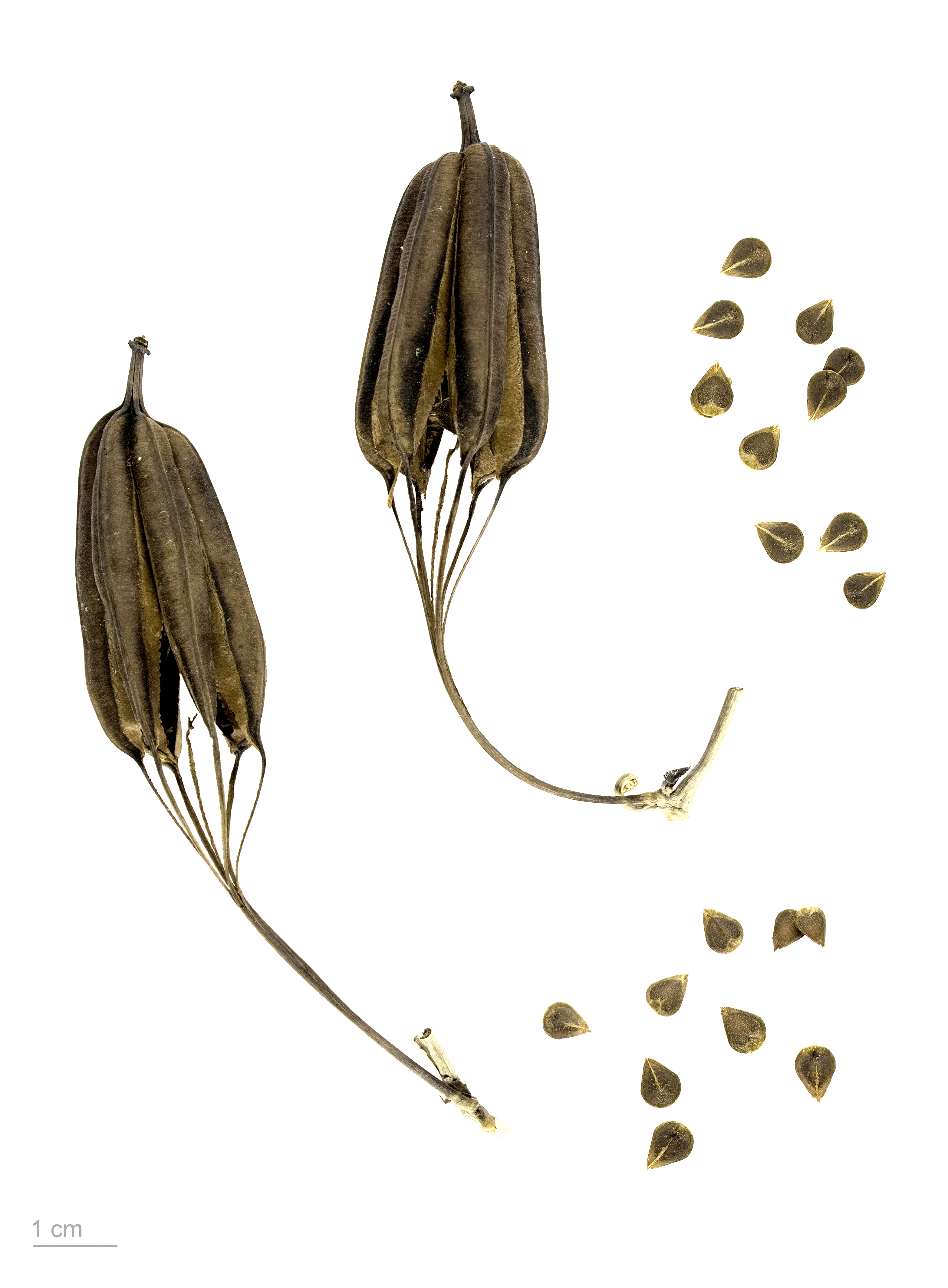 calico flower, fruits and seeds